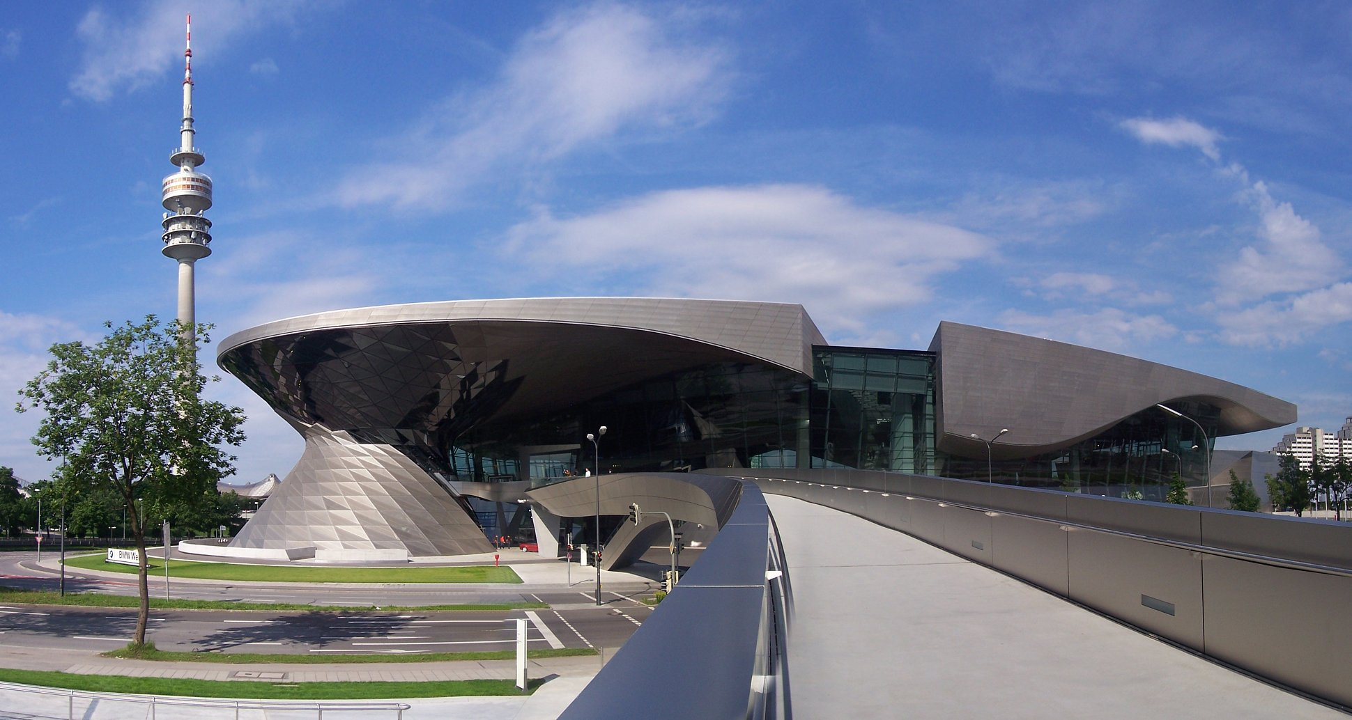 BMW Welt, view from BMW Museum cross-walk